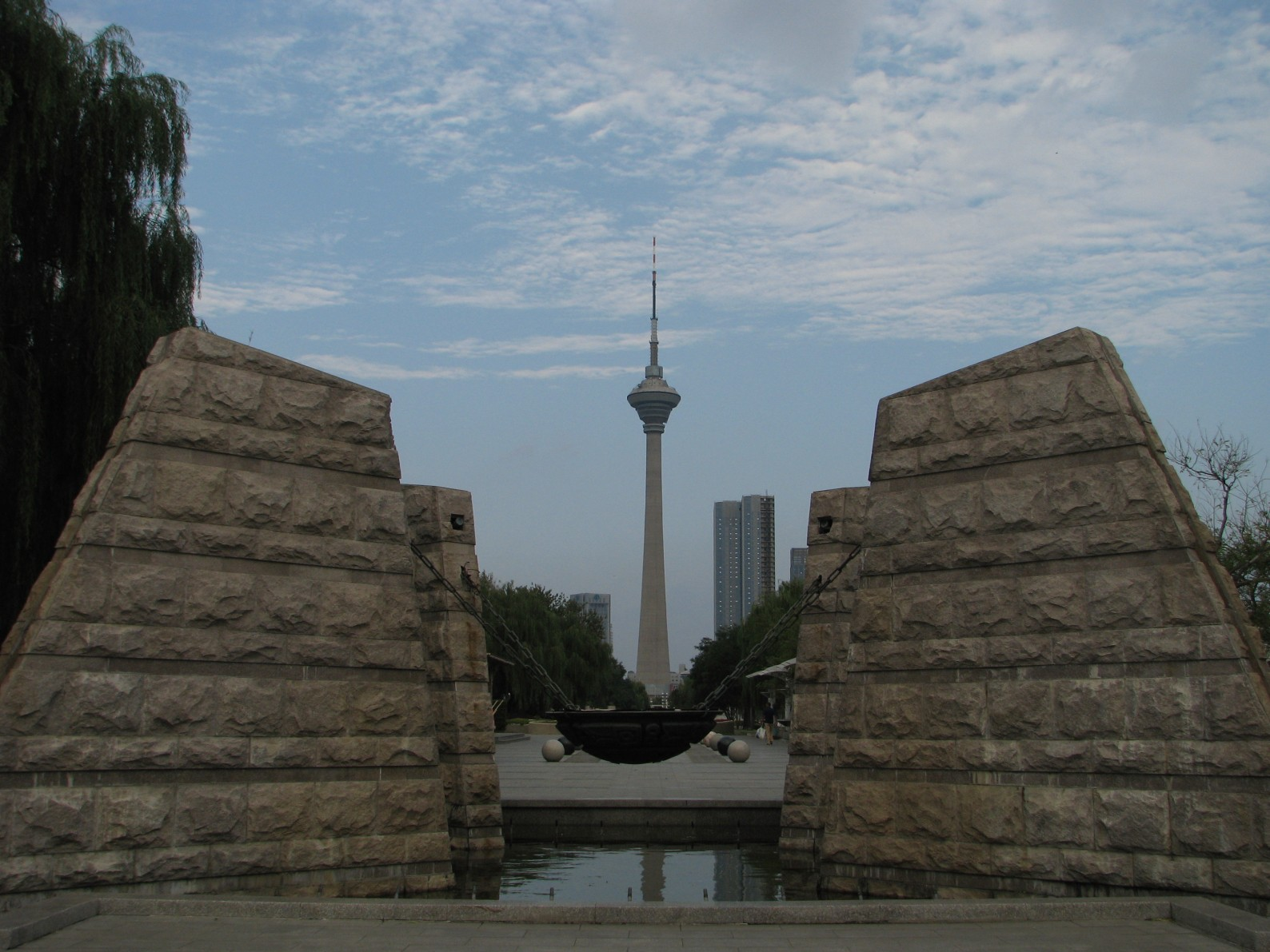 Tianjin TV tower, view from a near amusement park (small, low resolution)